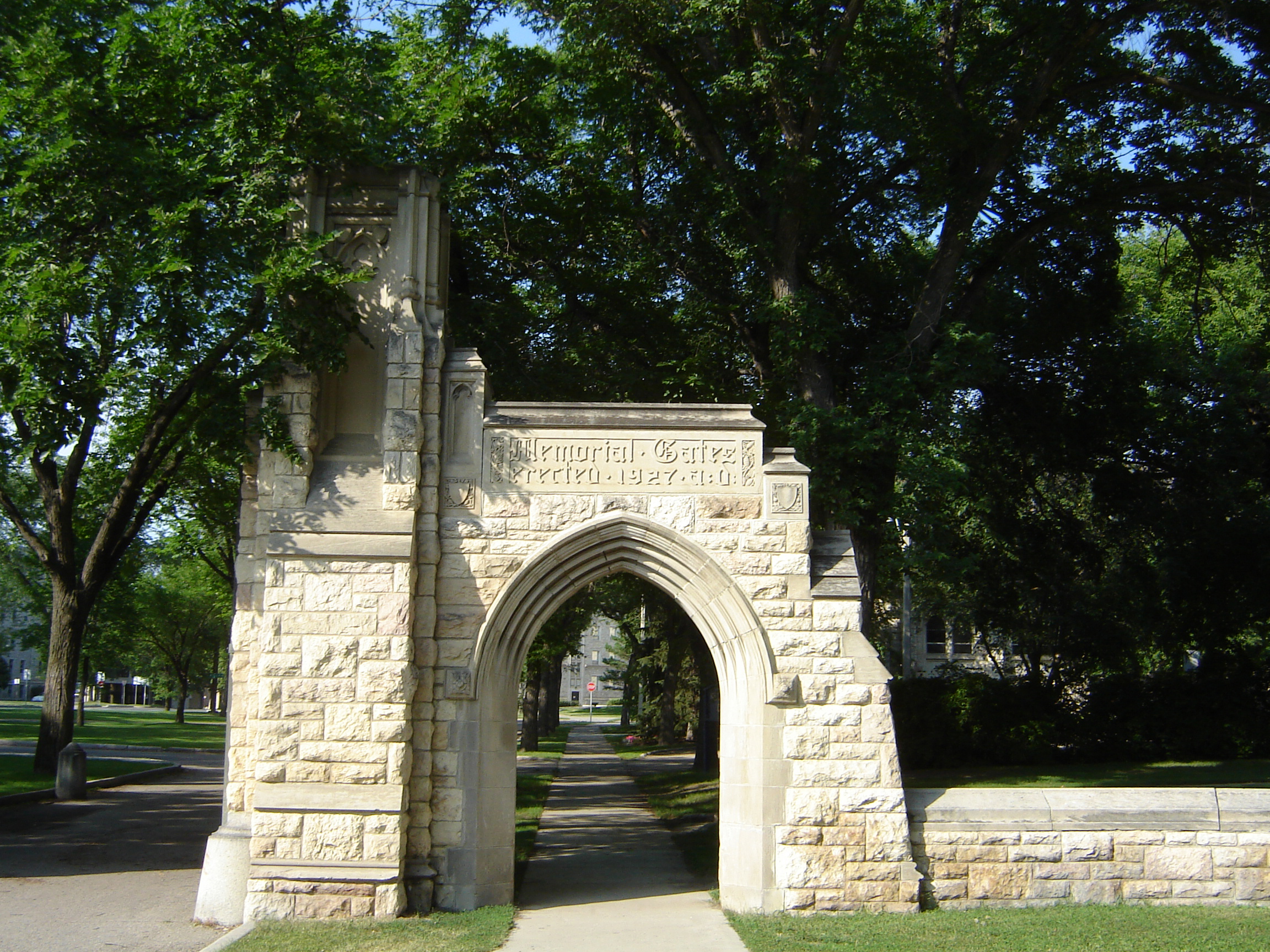 Memorial Gates U of S Saskatoon Saskatchewan Canada